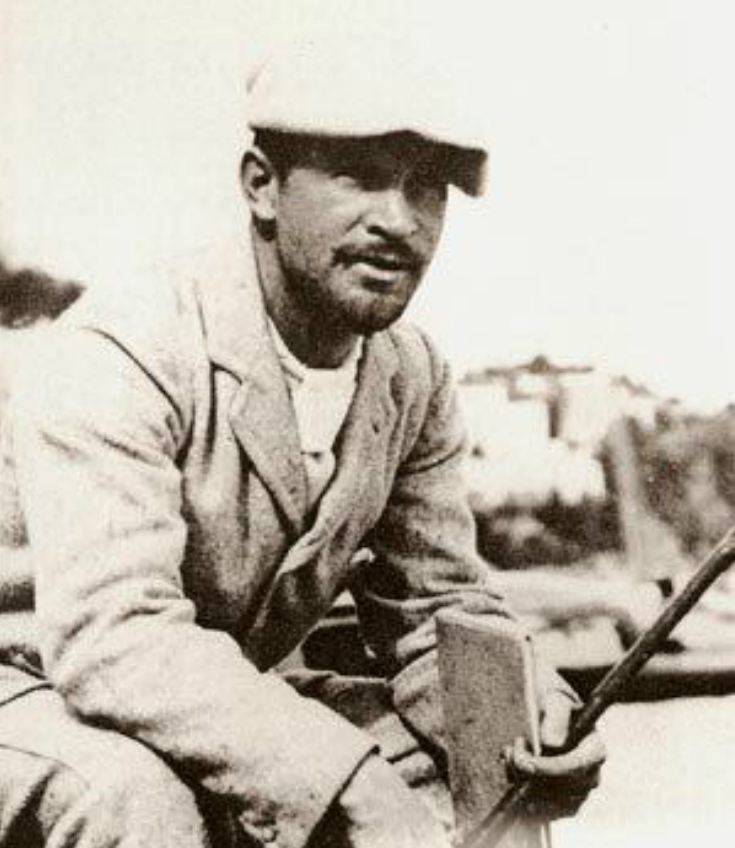 Artist William Blair Bruce, 1859-1906